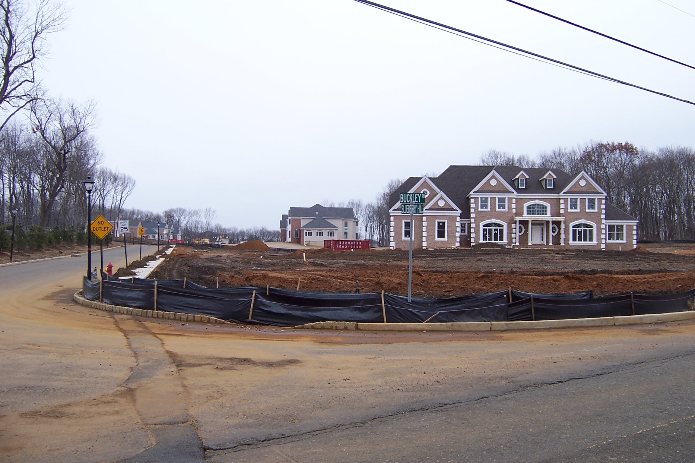 McMansions under construction at the corner of Buckley Rd and Blueberry Hill in Marlboro Township, New Jersey.